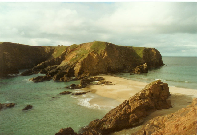 Uyea off the northwest of the Shetland Mainland. The island is connected by a narrow sandy beach.